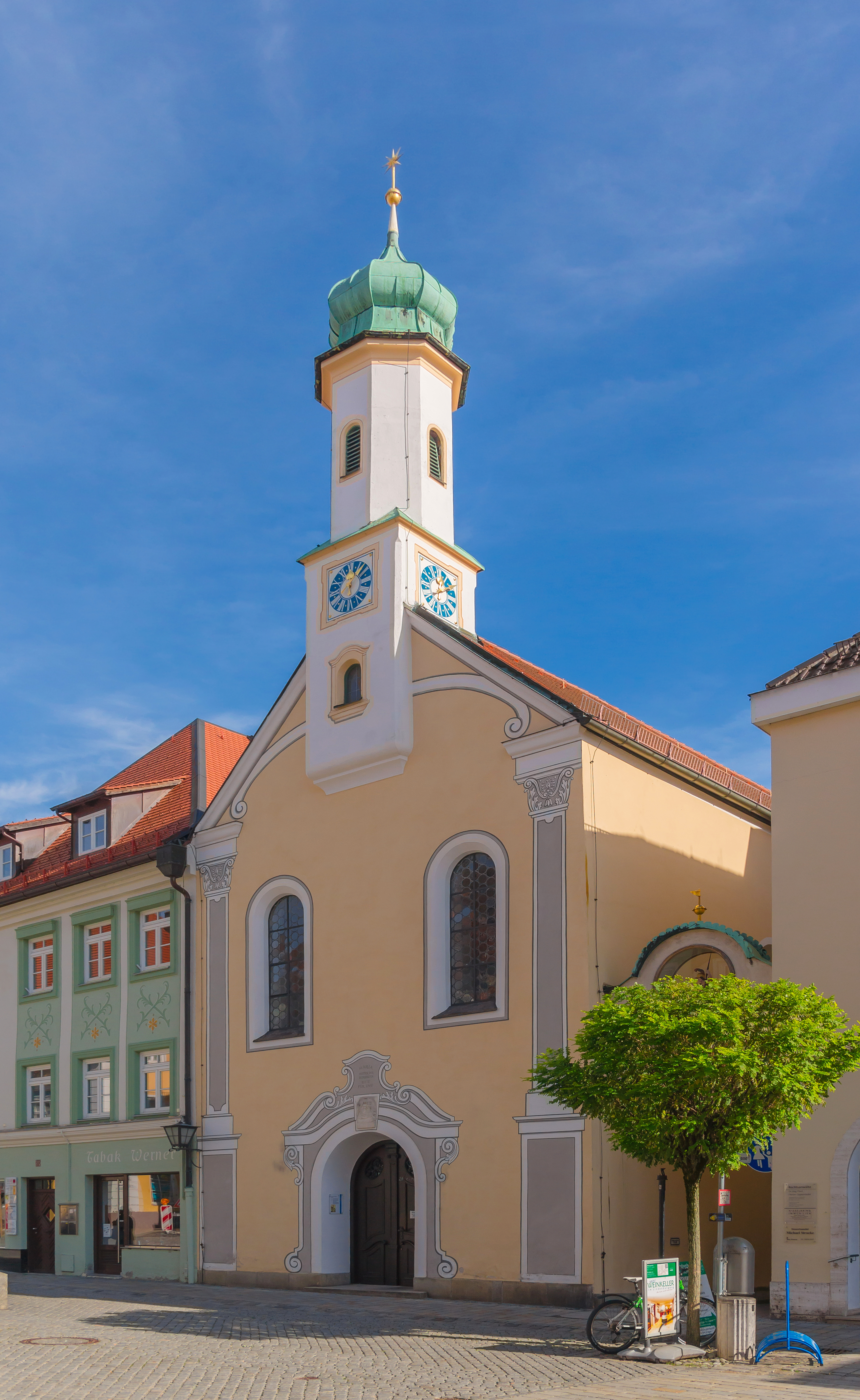 Fassade of the Maria Hilf Kirche, Murnau am Staffelsee, Bavaria, Germany.